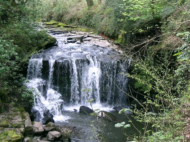 Waterfall on the Upper Clydach river This waterfall is both the largest and the furthest upstream on the maintained path in the Cwm Du Glen reserve.